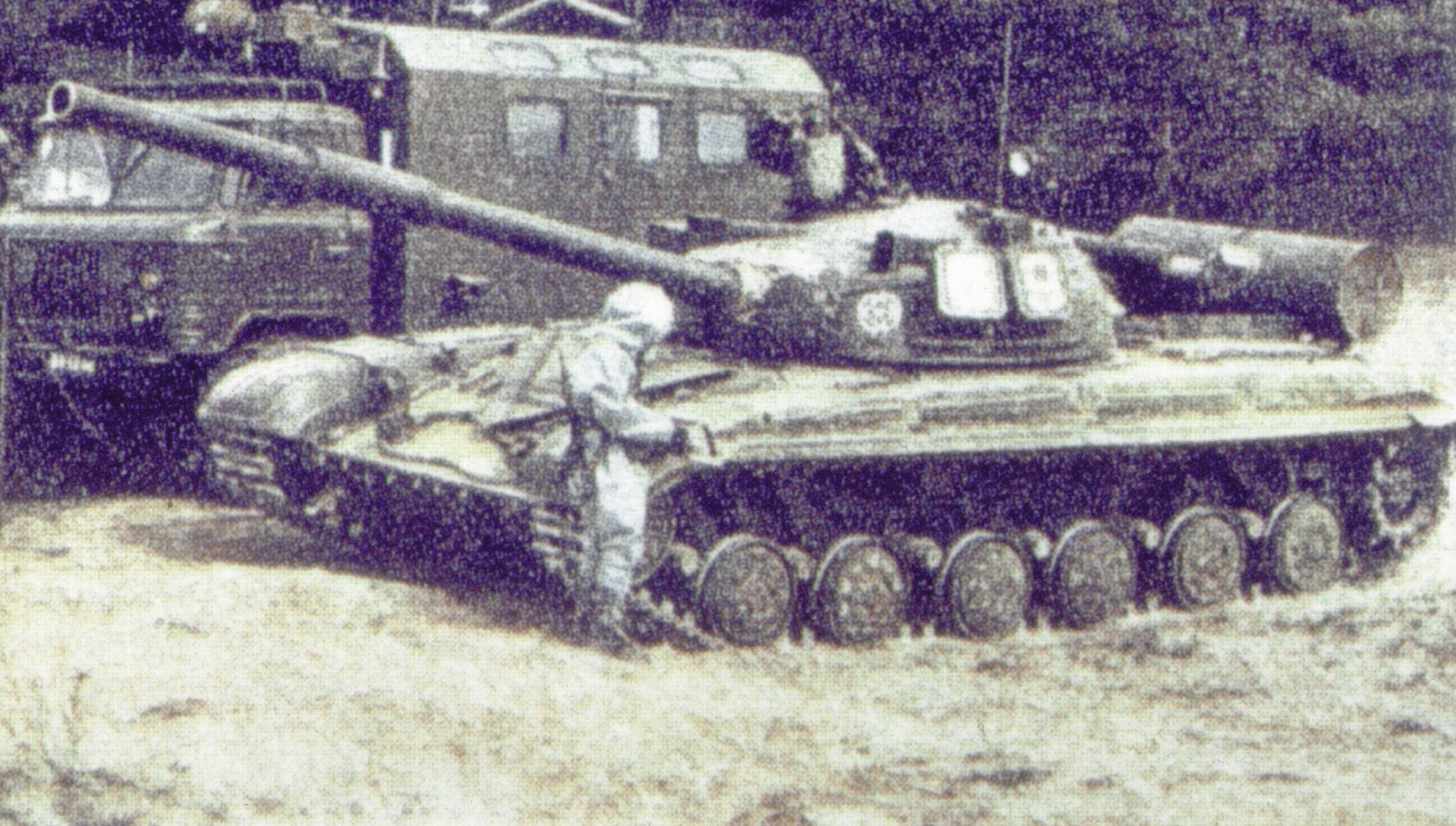 A Soviet T-64 tank in the 1980s. Note the Person wearing a Hazmat suit. The image was shoz during a decontamination exercise of the Soviet Army.